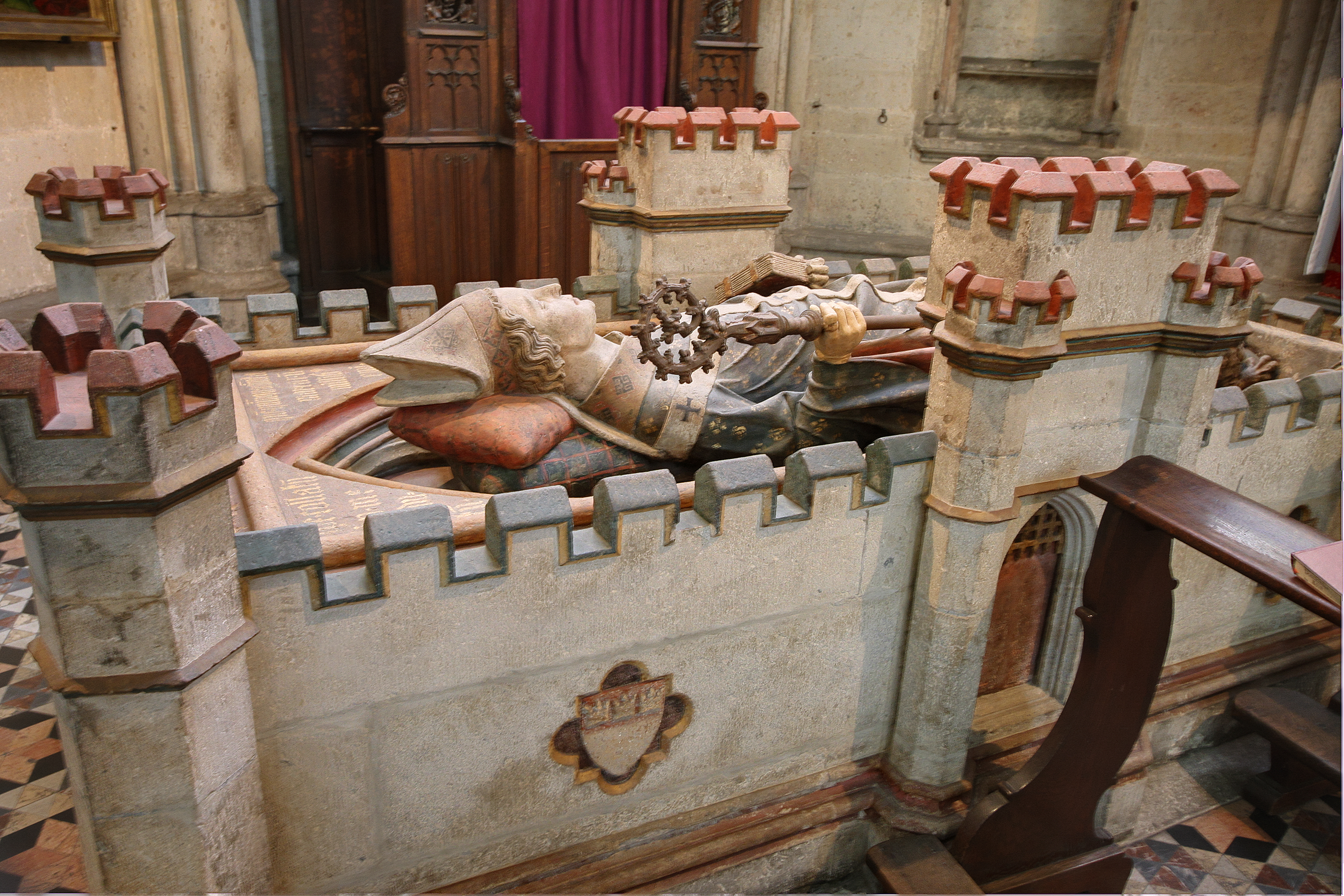 Tomb of Archbishop Philipp I. von Heinsberg, (1167-1191), around 1300